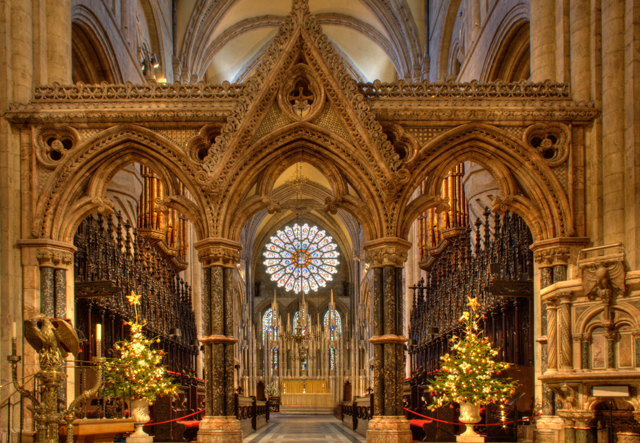 Durham Cathedral A view from inside the cathedral.